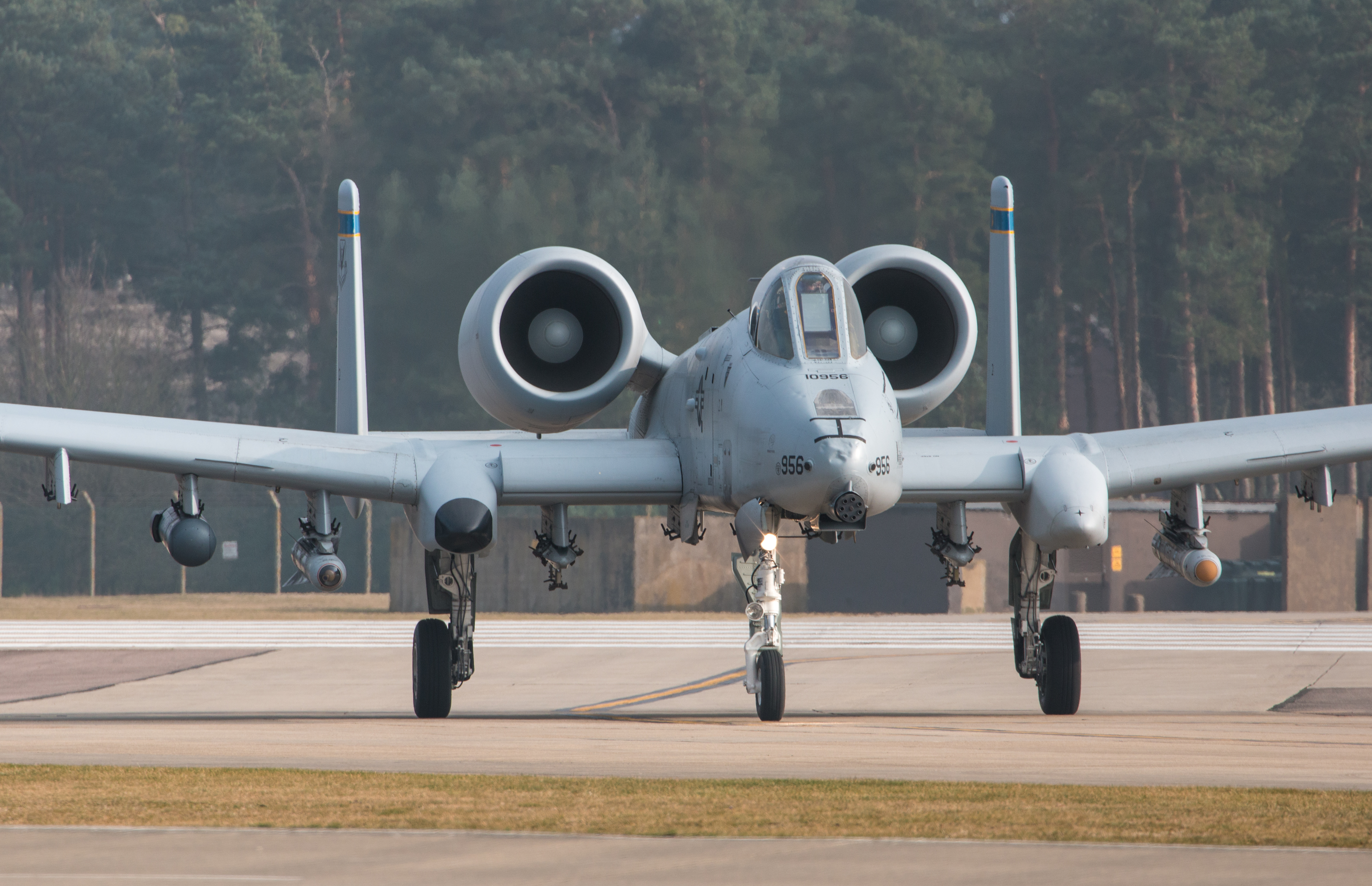 RAF Lakenheath, Suffolk